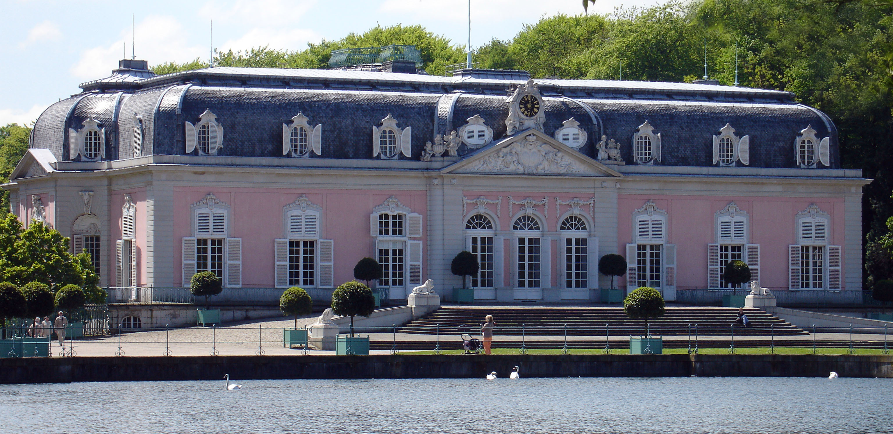 Schloss Benrath near Düsseldorf, main building, front view.